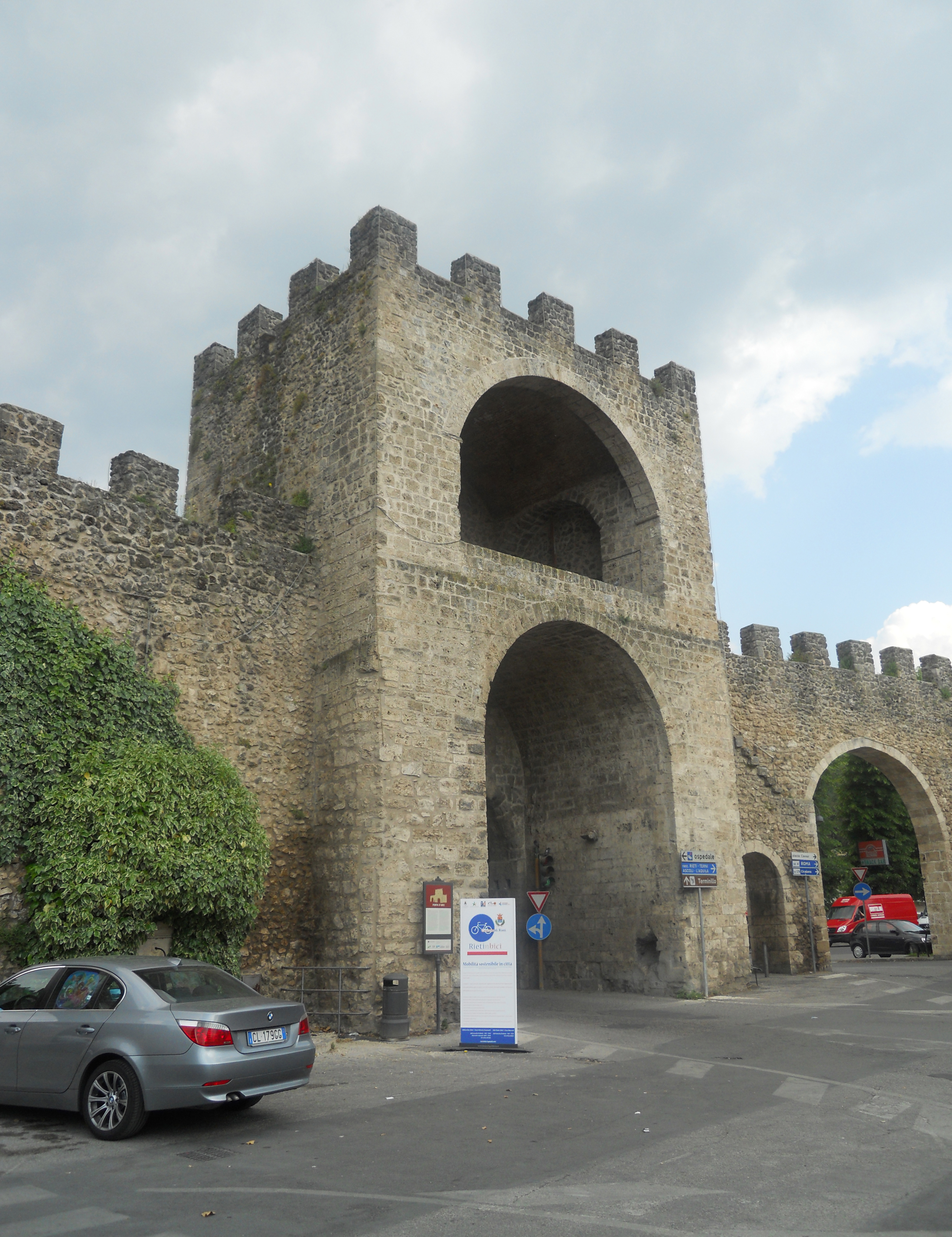 Porta d'Arci, interior side - Rieti, Italy